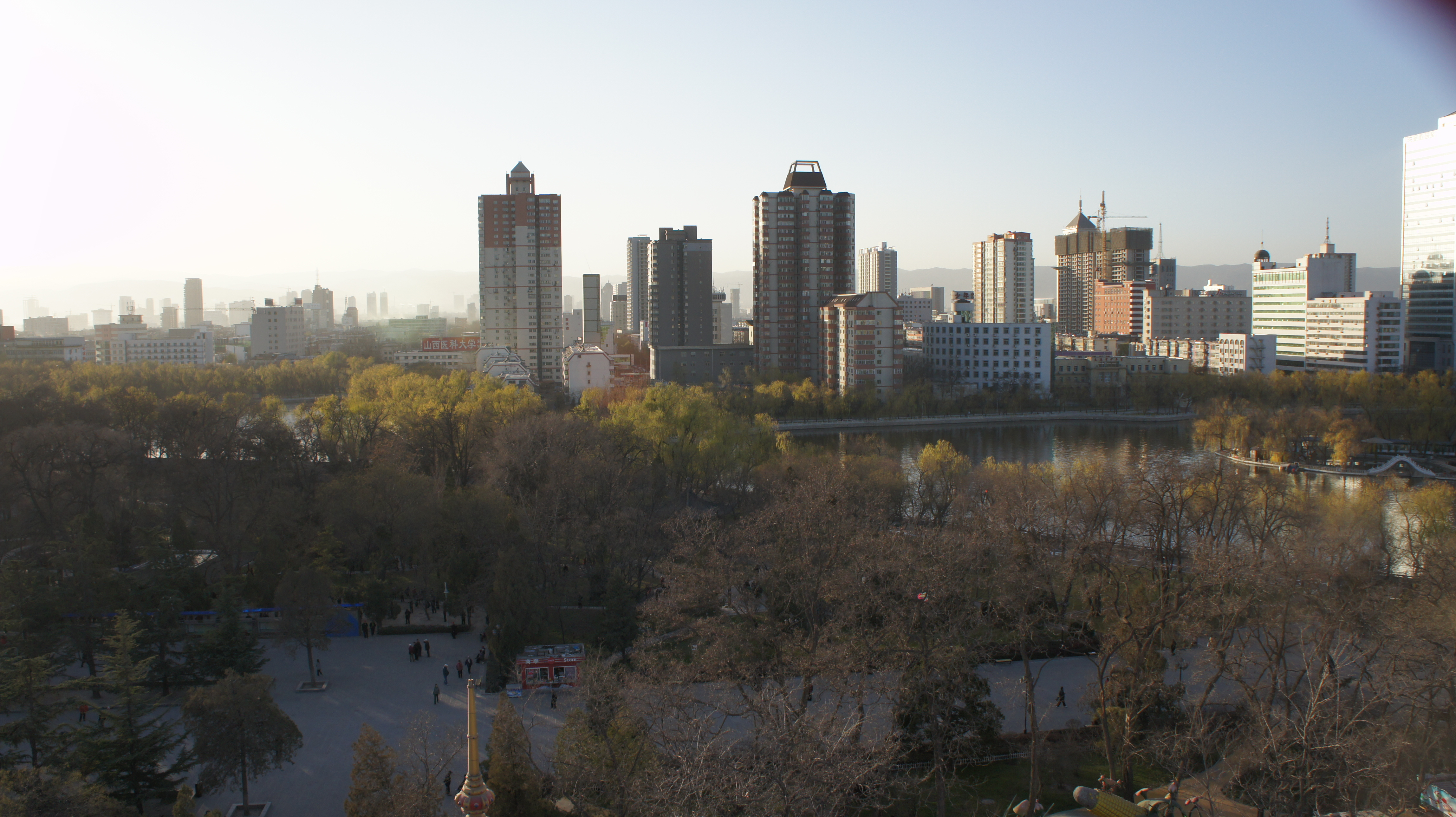 Yingze District buildings view from Yingze Park.